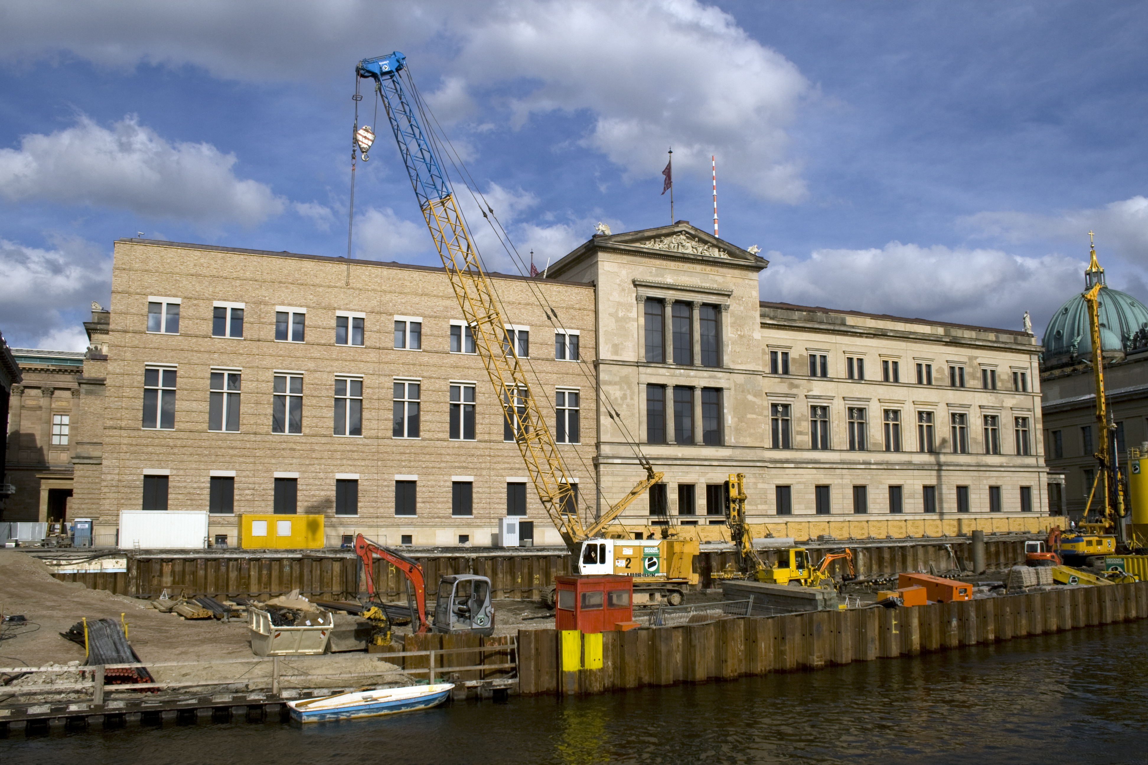 Western front of the Neues Museum with the foundation work of the James Simon-Galerie